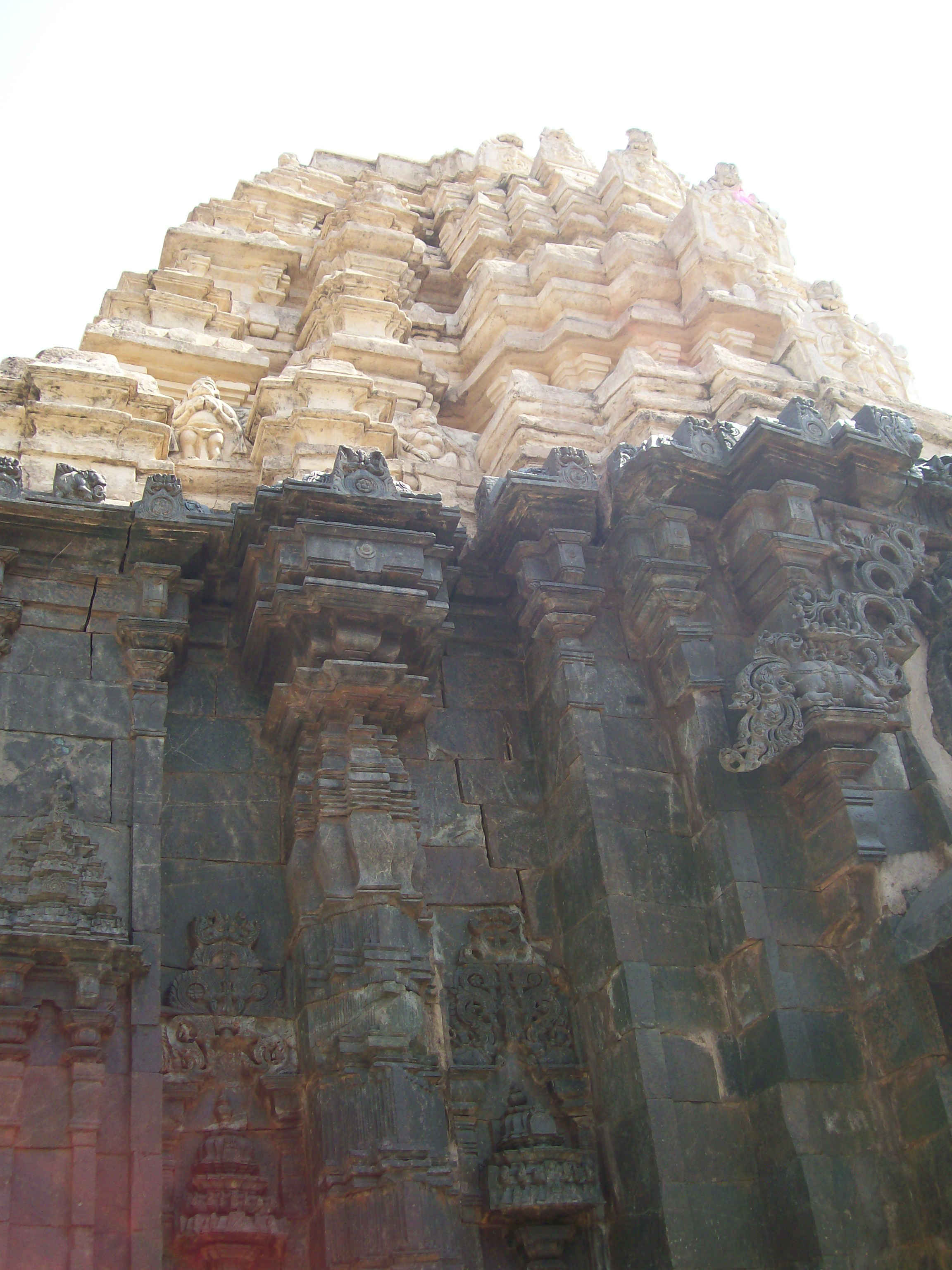 The temple as seen from the base